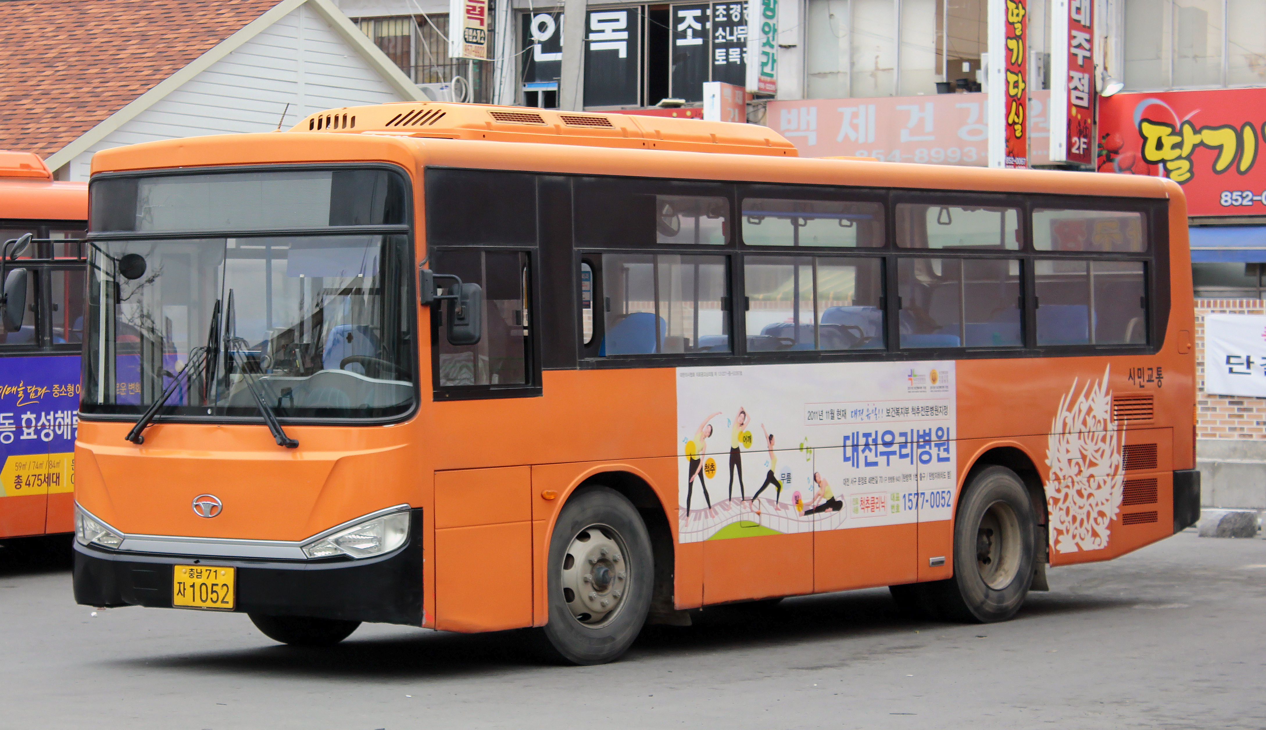 Gongju City Bus Daewoo New BS090 Motorcoach